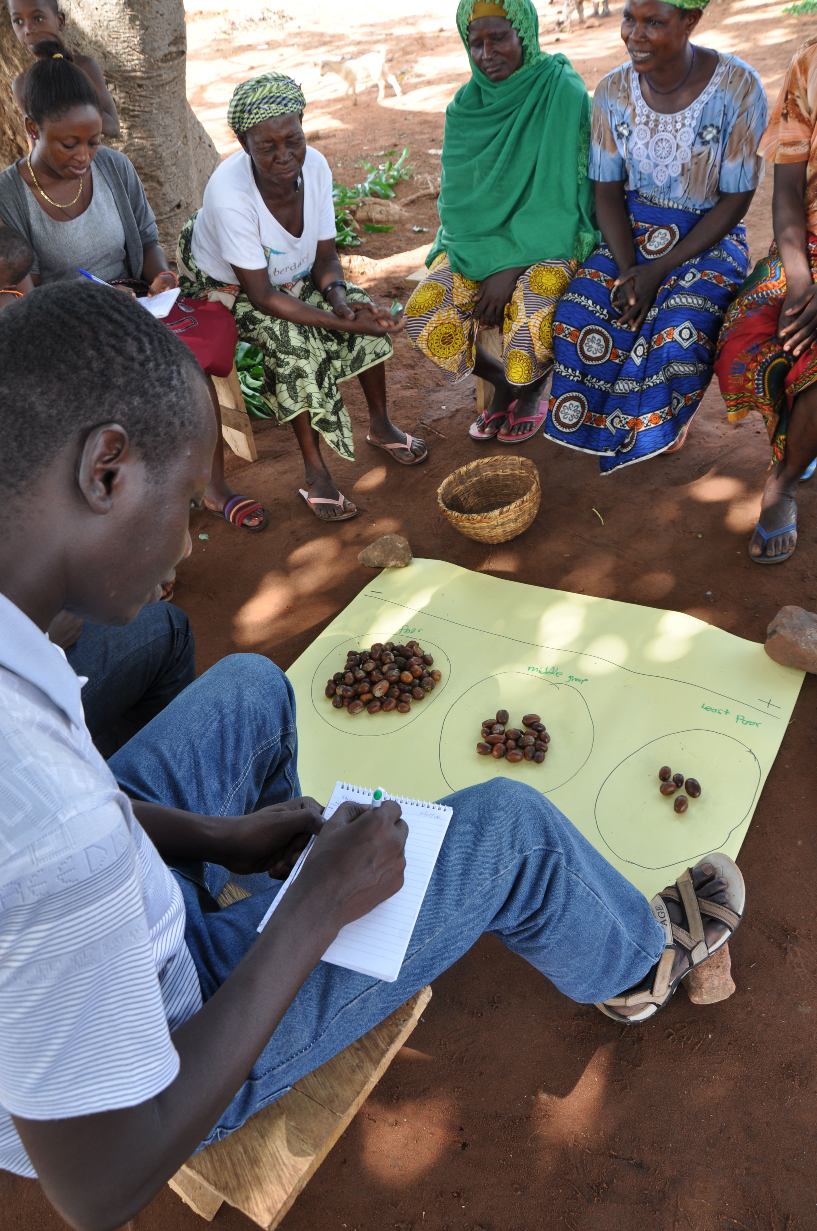 In June of 2014, the CGIAR Research Program on Climate Change, Agriculture and Food Security (CCAFS) together with CARE trained and tested an upcoming Participatory Action Research Manual collecting valuable gender and social information about farmers. The manual is targeting researchers and development practitioners seeking to gather data and understand the reality of farmers with a gender-perspective through methods that are participatory in nature and have been developed through an extensive partnership and test-period. In the photo: A joint men and women session of wealth and vulnerability analysis in Jawani Ghana. Photo by: Taylor Spicer (CCAFS).